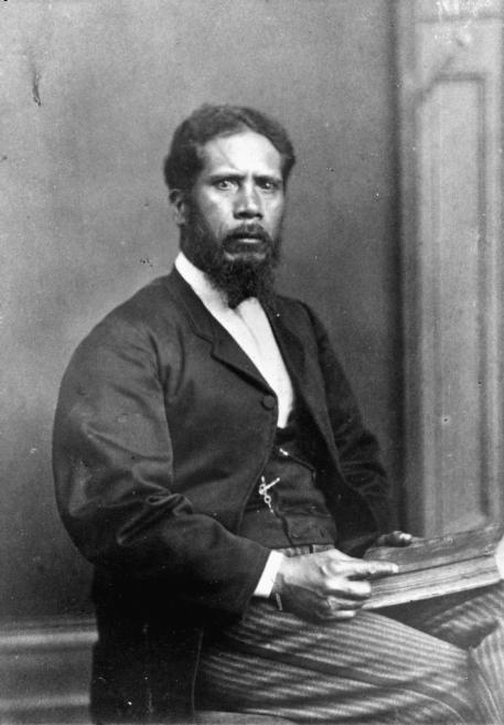 Maori chief and politician Wiremu Katene possibly taken after his election to Parliament in 1871